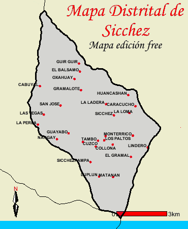 Mapa de Sicchez